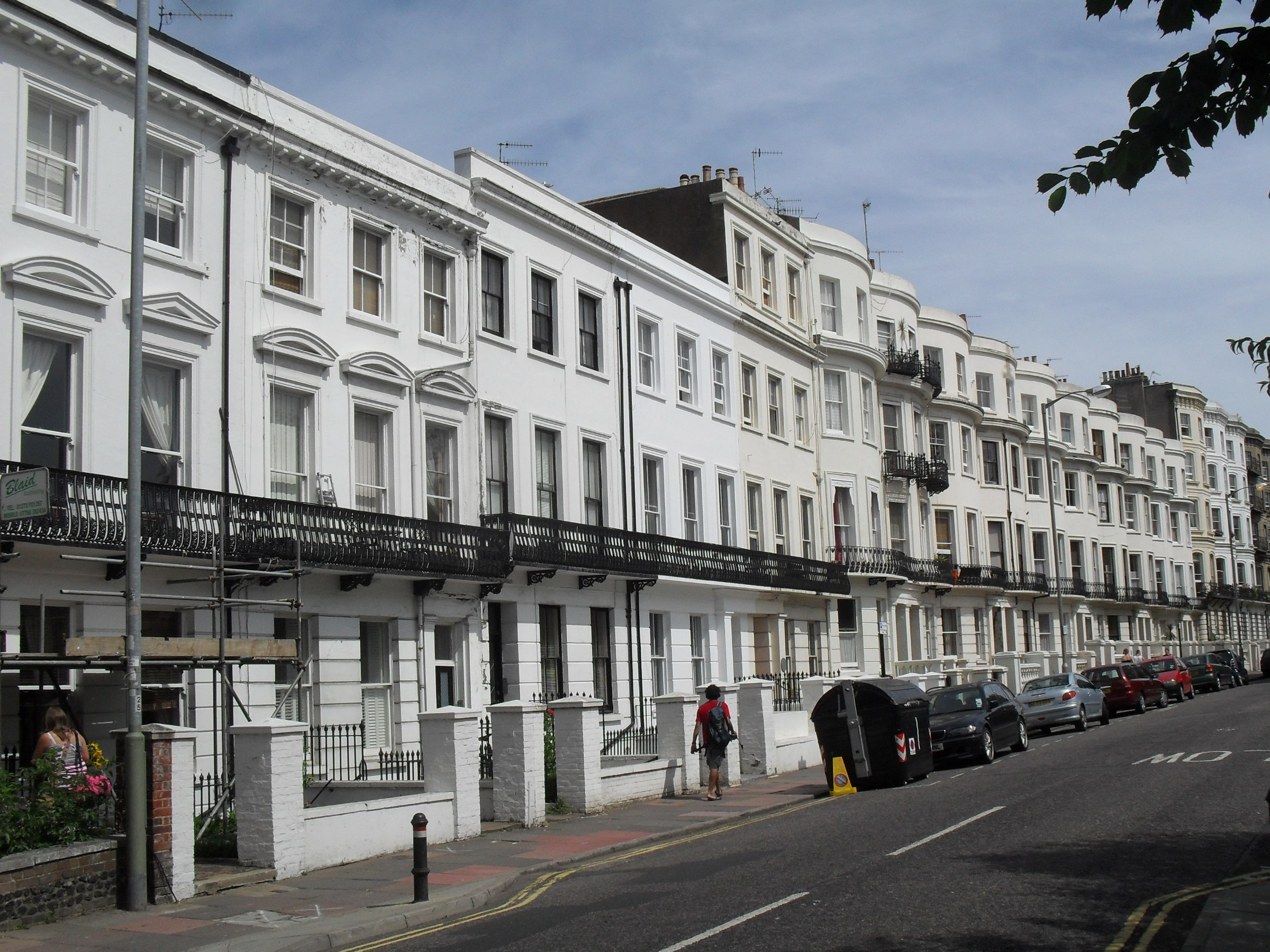 A general view of the varied residential buildings in Vernon Terrace, Montpelier, City of Brighton and Hove, England.